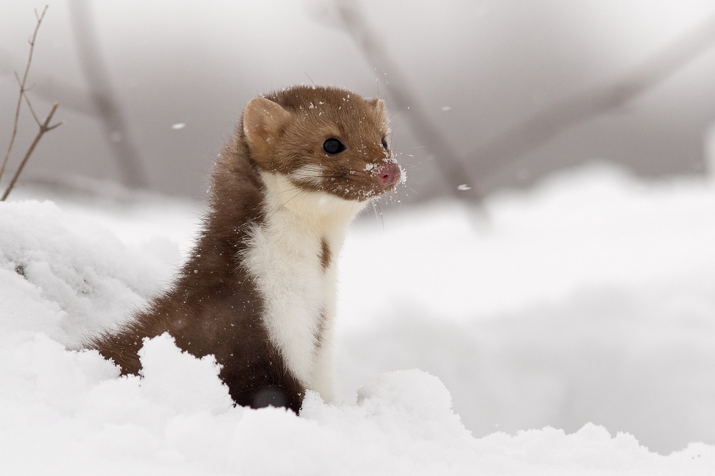 Martes foina, Navasrky, Czech Republic